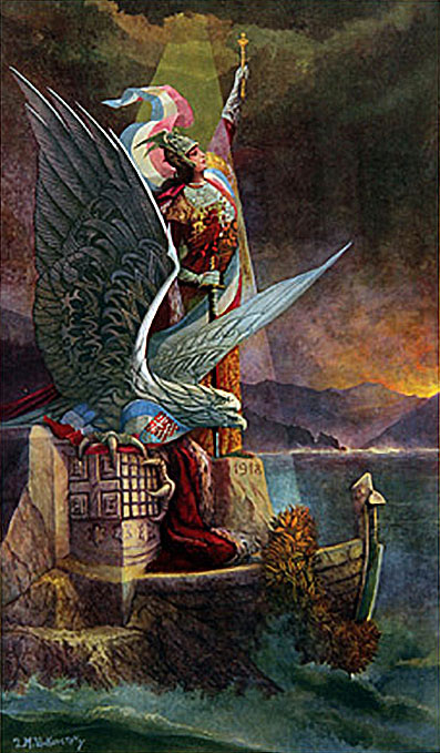 Jugoslavija na Jadranu ("Yugoslavia at the Adriatic") Offset u boji, 71 x 42 cm, oko 1935. Sign.